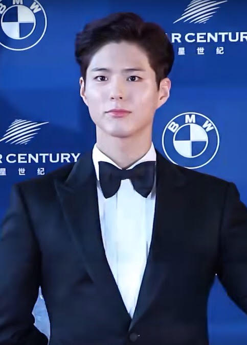 Park Bo-gum at the 53rd Baeksang Arts Awards (May 3, 2017)